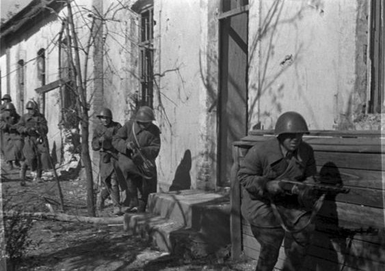 Soviet troops in action in the battle of Stalingrad